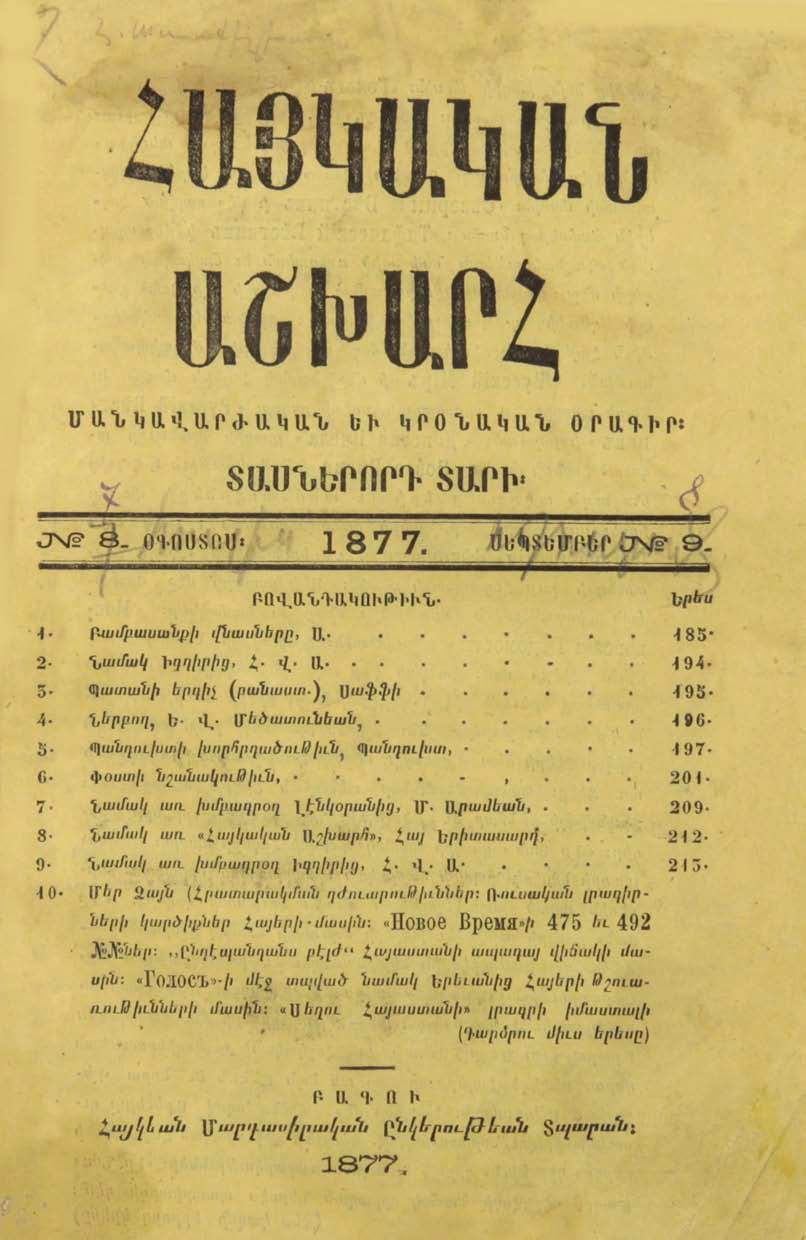 Armenian journal "Haykakan ashkharh" ("Armenian world") published in Baku